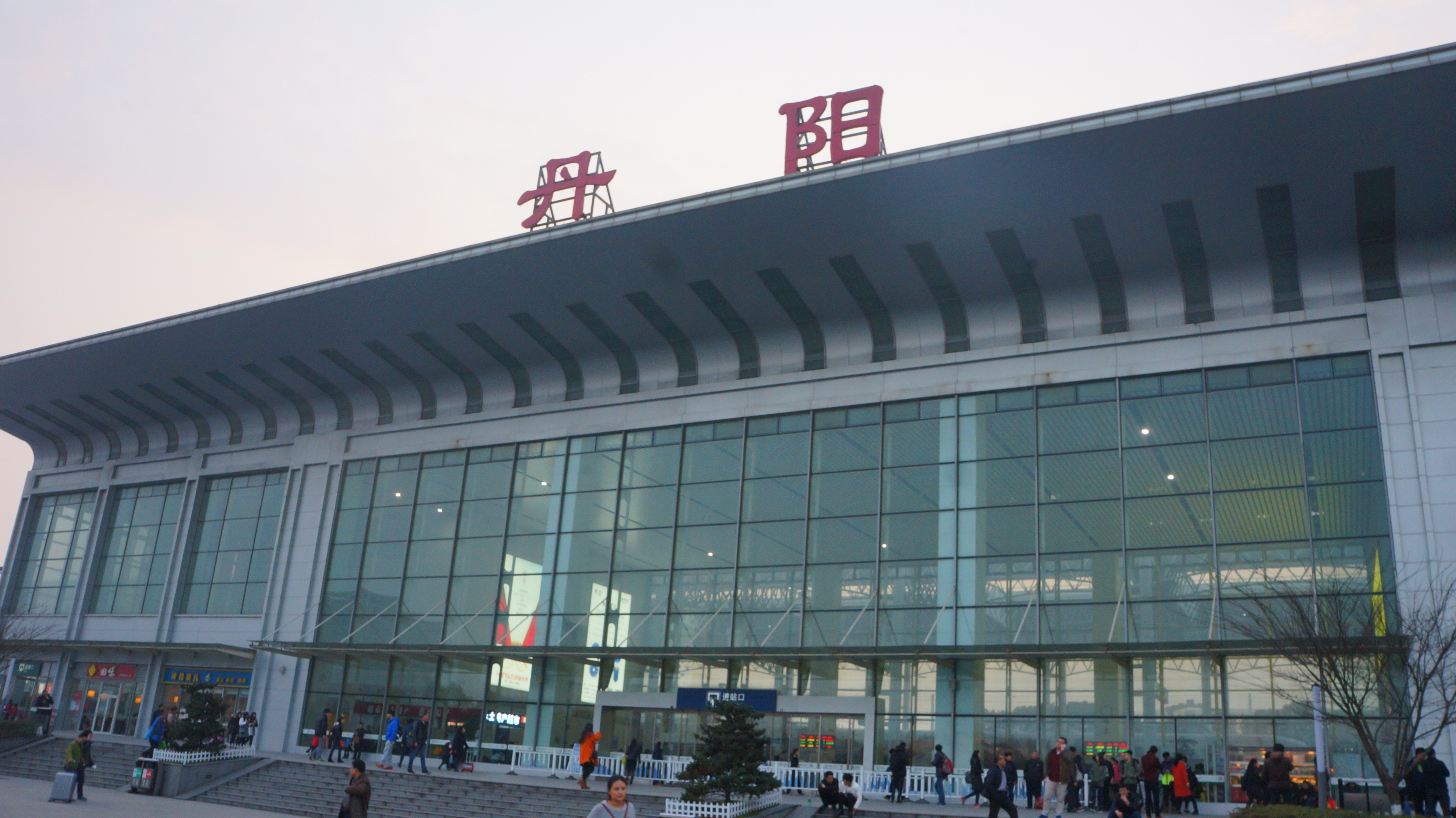 201601 Danyang Railway Station (intercity)